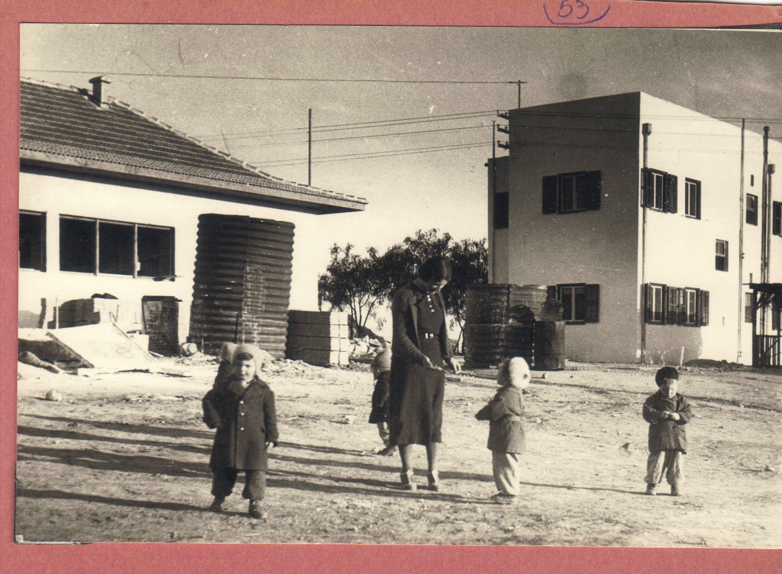 Children remains out for a walk from the two stores house, wearing winter clothing